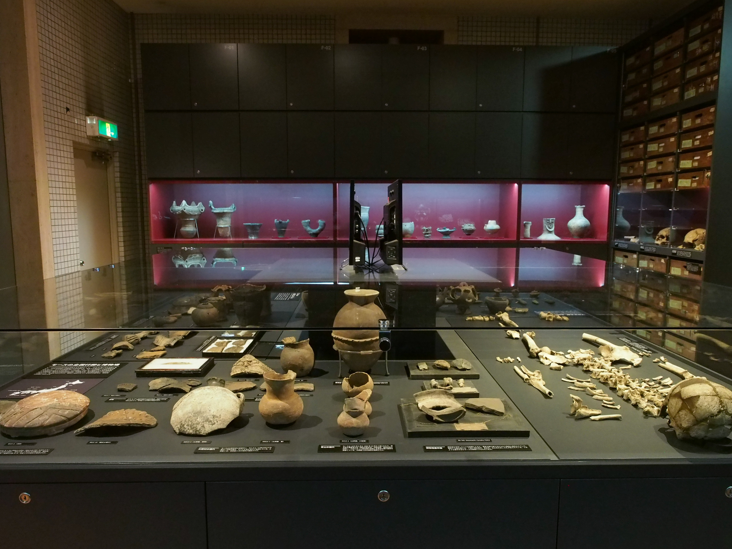 Exhibition of "Anthropology Collection of the University of Tokyo from Meiji Period", at The University Museum, The University of Tokyo, in Hongo Campus, Bunkyō, Tokyo, Japan.